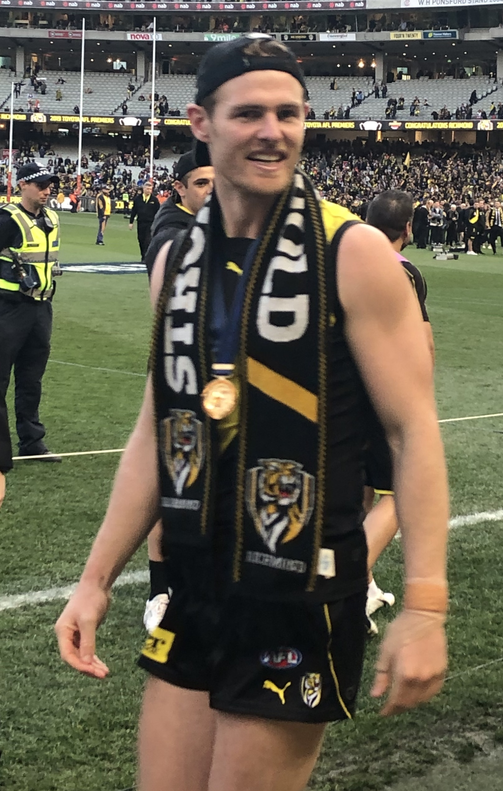 David Astbury at the 2019 AFL Grand Final